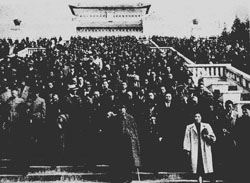 The copyright of this picture has expired. Expired! Expired! Never remove it!